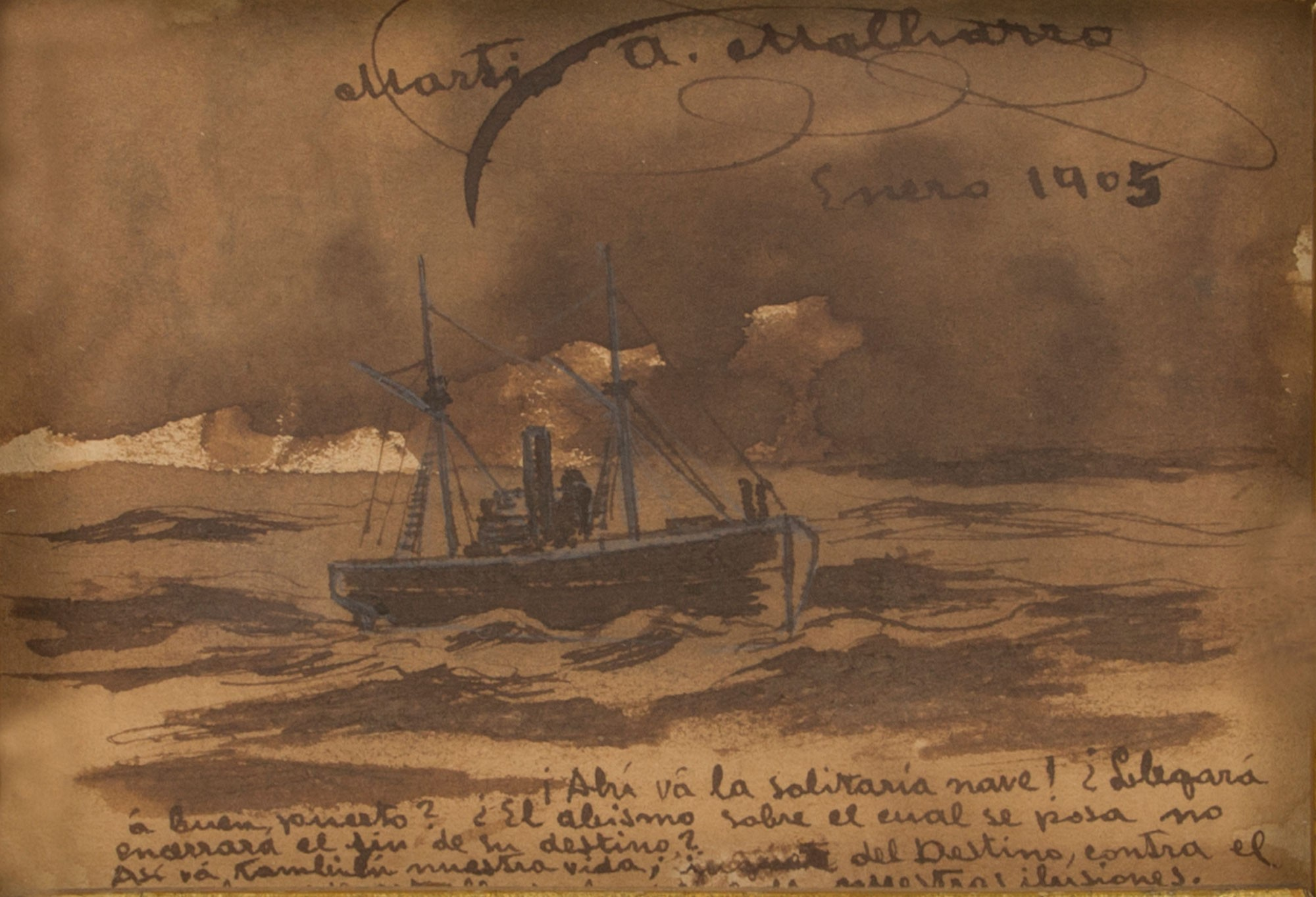 Martín Malharro (1865–1911) DescriptionArgentine painterDate of birth/death18651911Authority control VIAF: 31465652 ULAN: 500117963 LCCN: n2008017730 SUDOC: 164663657 WorldCat